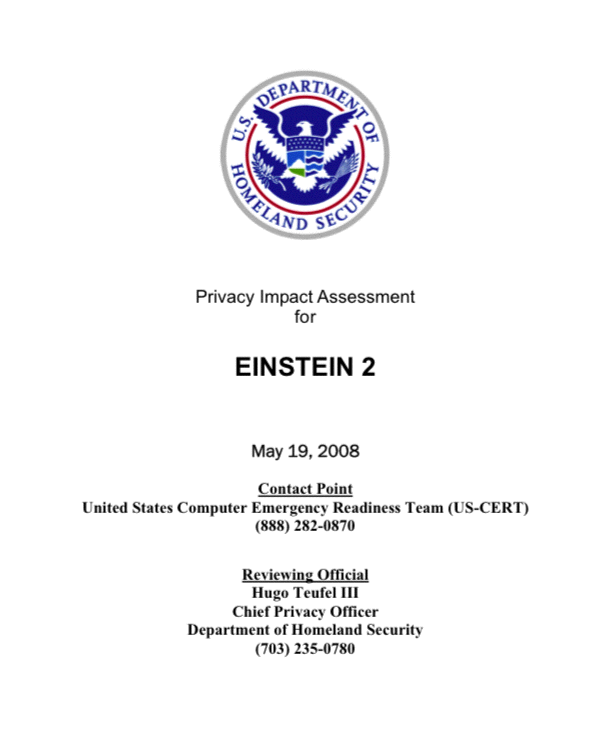 cover page of Privacy Impact Assessment for EINSTEIN 2